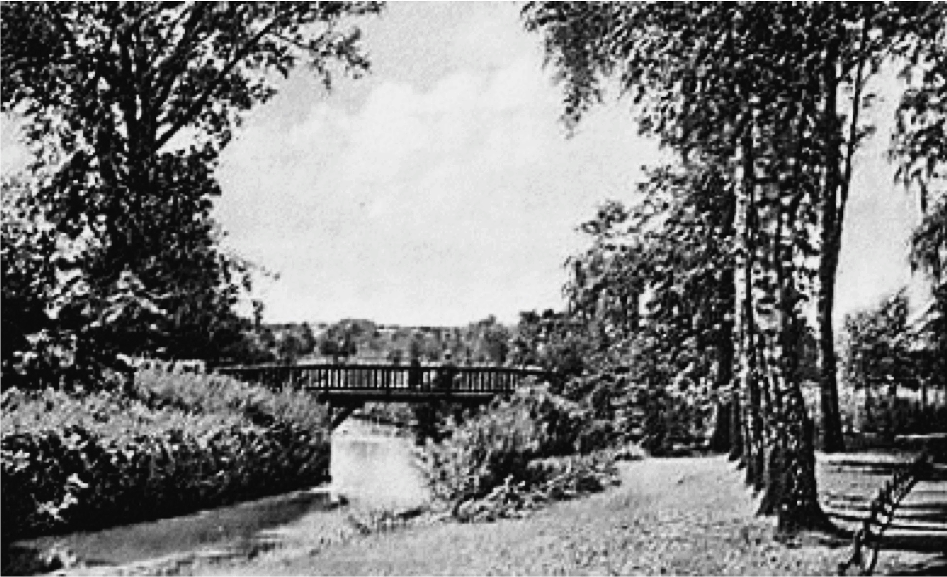 Private park of Hermann Killisch-Horn (1821–1886) in Pankow near Berlin, circa 1900. The park was created by Wilhelm Perring (1838–1906).